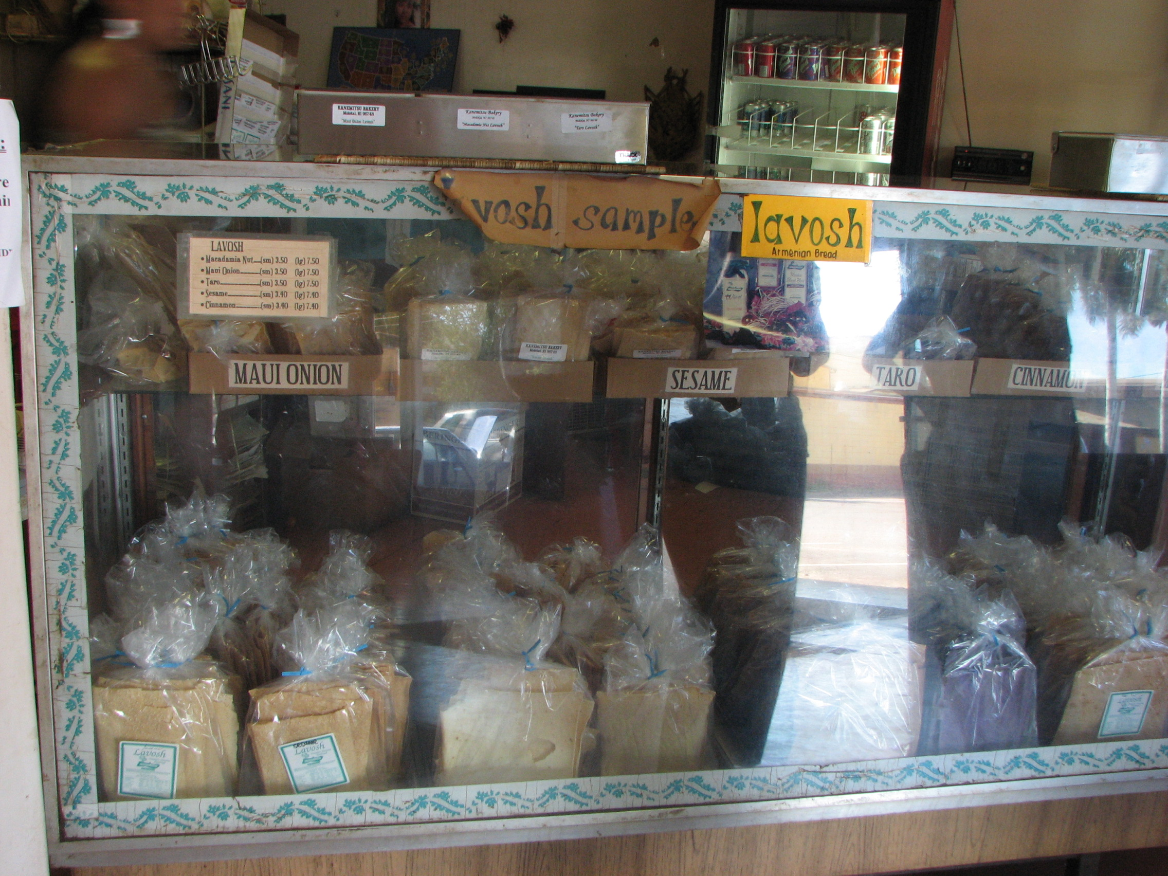 Kanemitsu Bakery counter selling lavosh Molokai, Hawaii March 29, 2007. Photo by crispyteriyaki (Flickr) attribution required